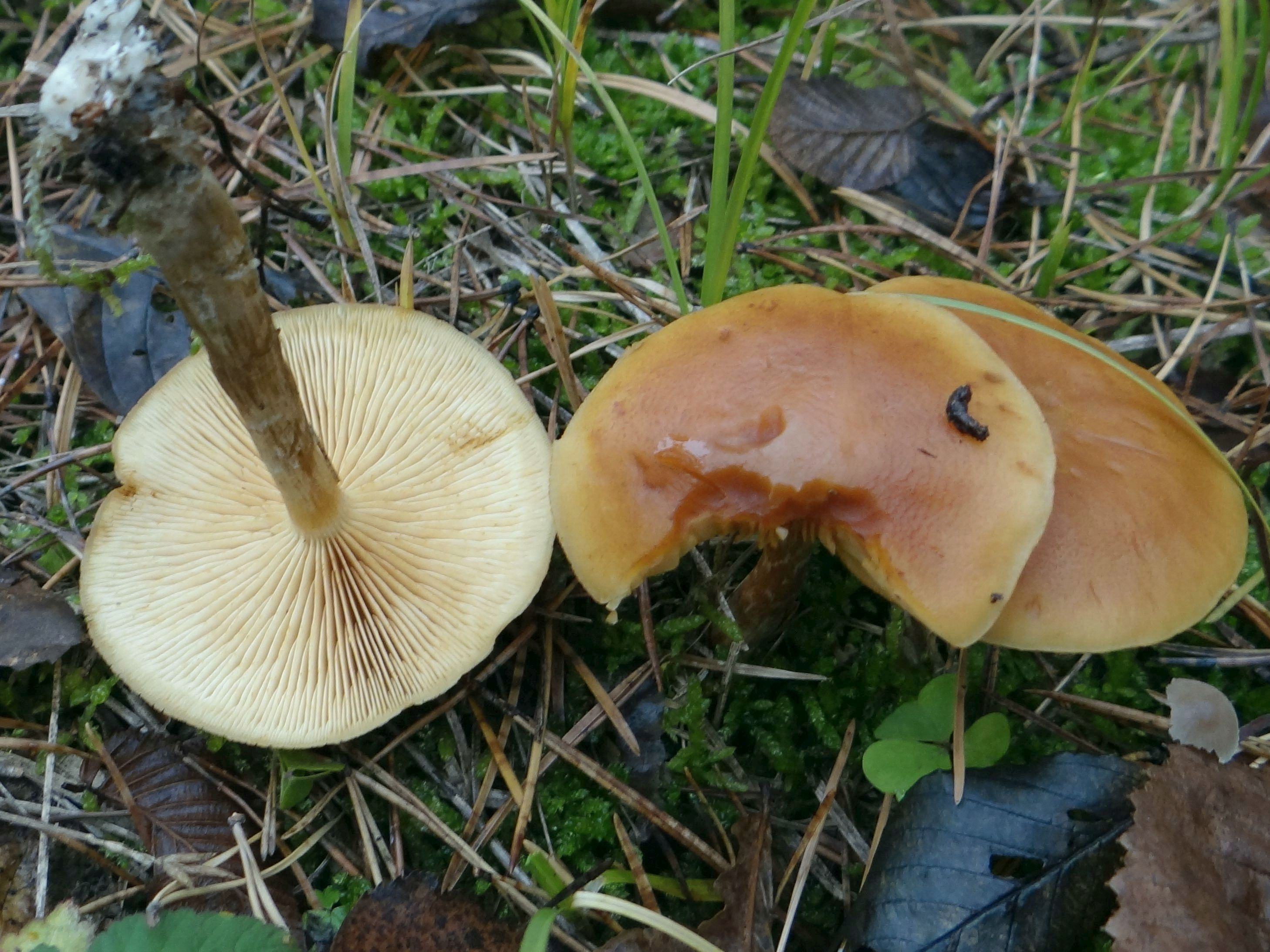 Gymnopilus penetrans (location: Poland, Biadoliny)